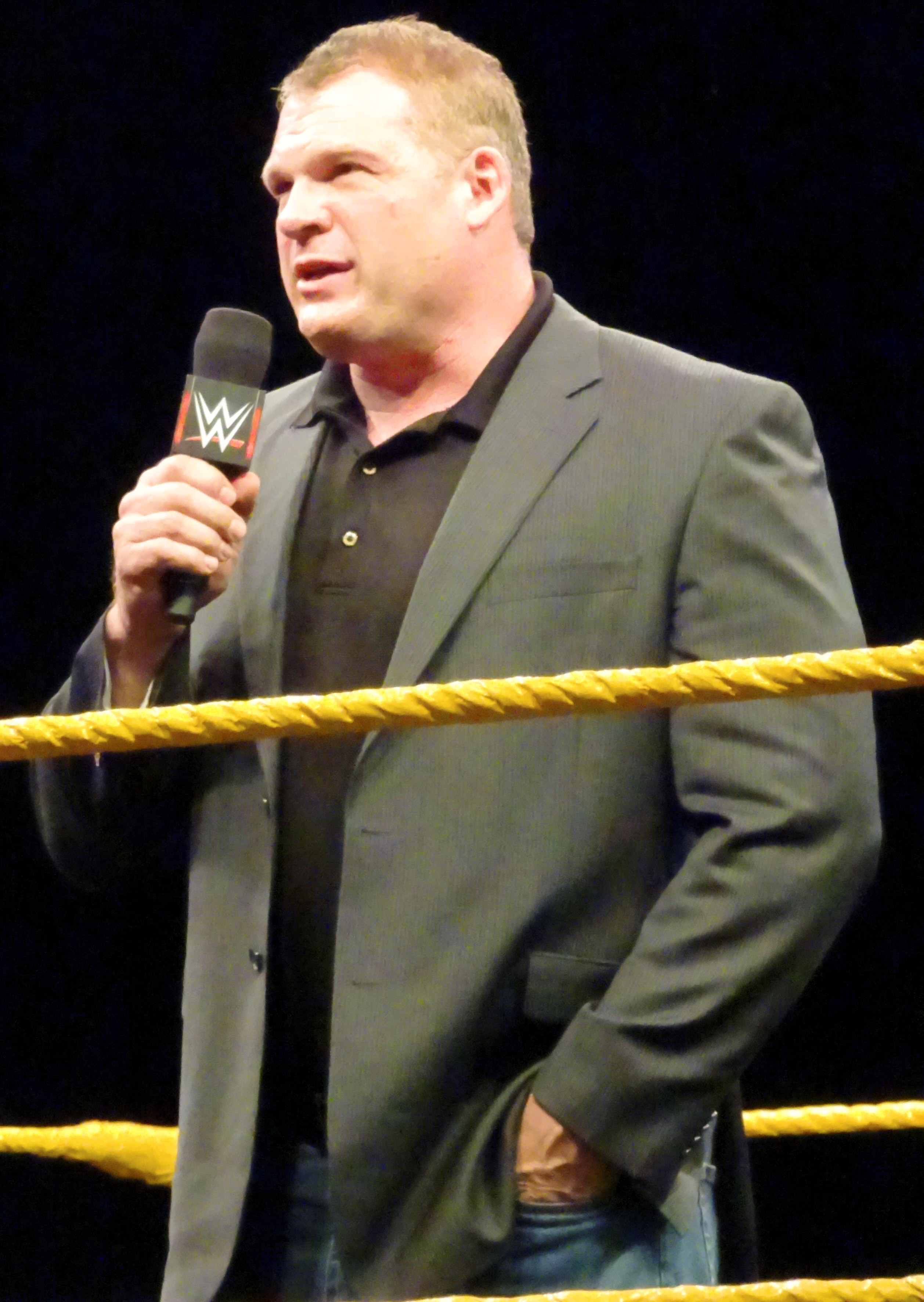 WrestleMania Axxess takes over the Kay Bailey Hutchison Convention Center in Dallas March 31-April 3. Featuring Superstar and Diva meet-and-greets, memorabilia displays and much more, WrestleMania Axxess is one event WWE fans of all ages will want to be part of. Don't miss out!